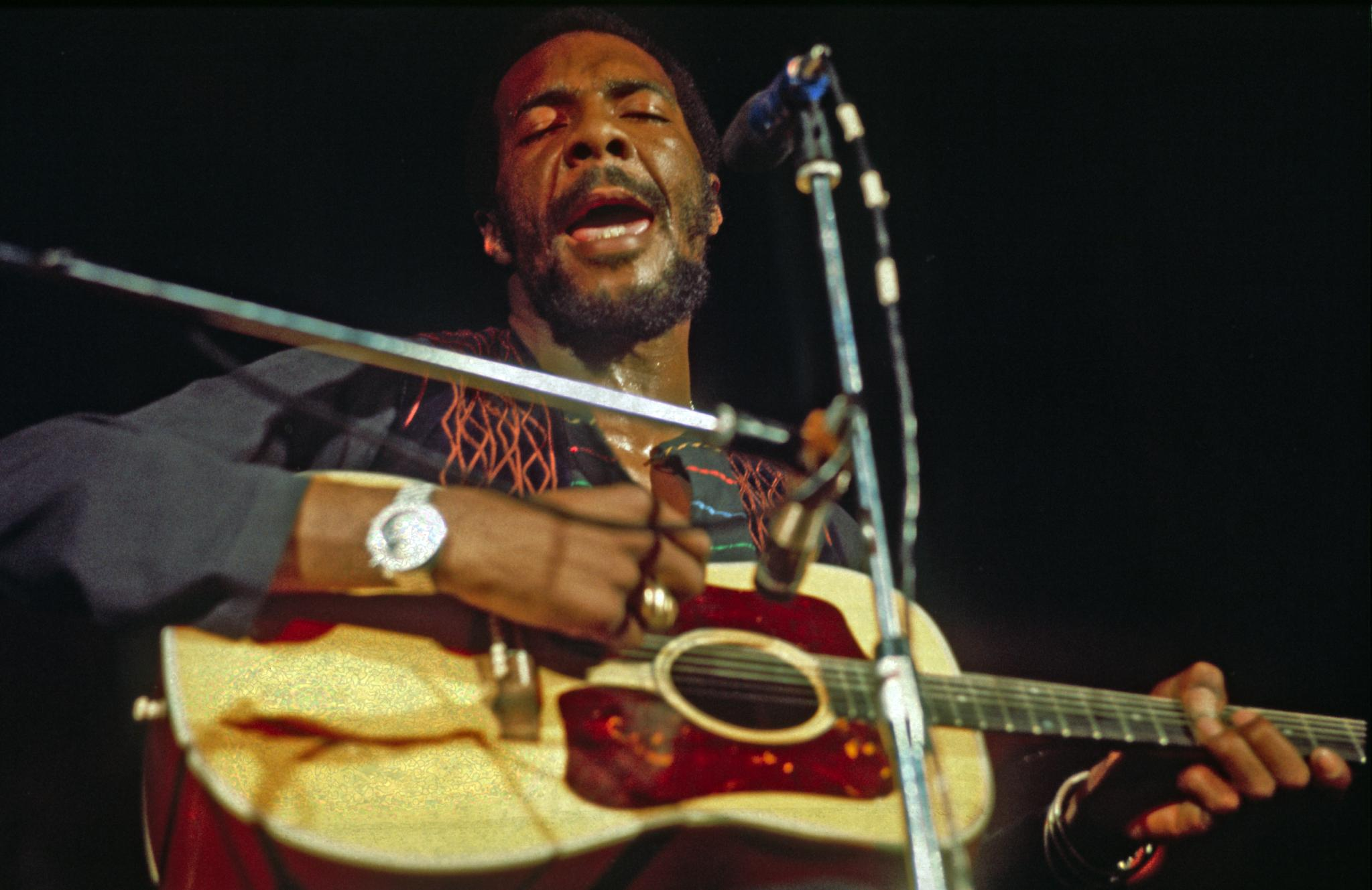 Richie Havens Live, Musikhalle Hamburg, May 1972